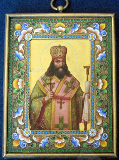 St. Theodosius of Chernigov. Russian icon, early 20th century. With riza. Moscow. Egg tempera on wood. Enamelled frame